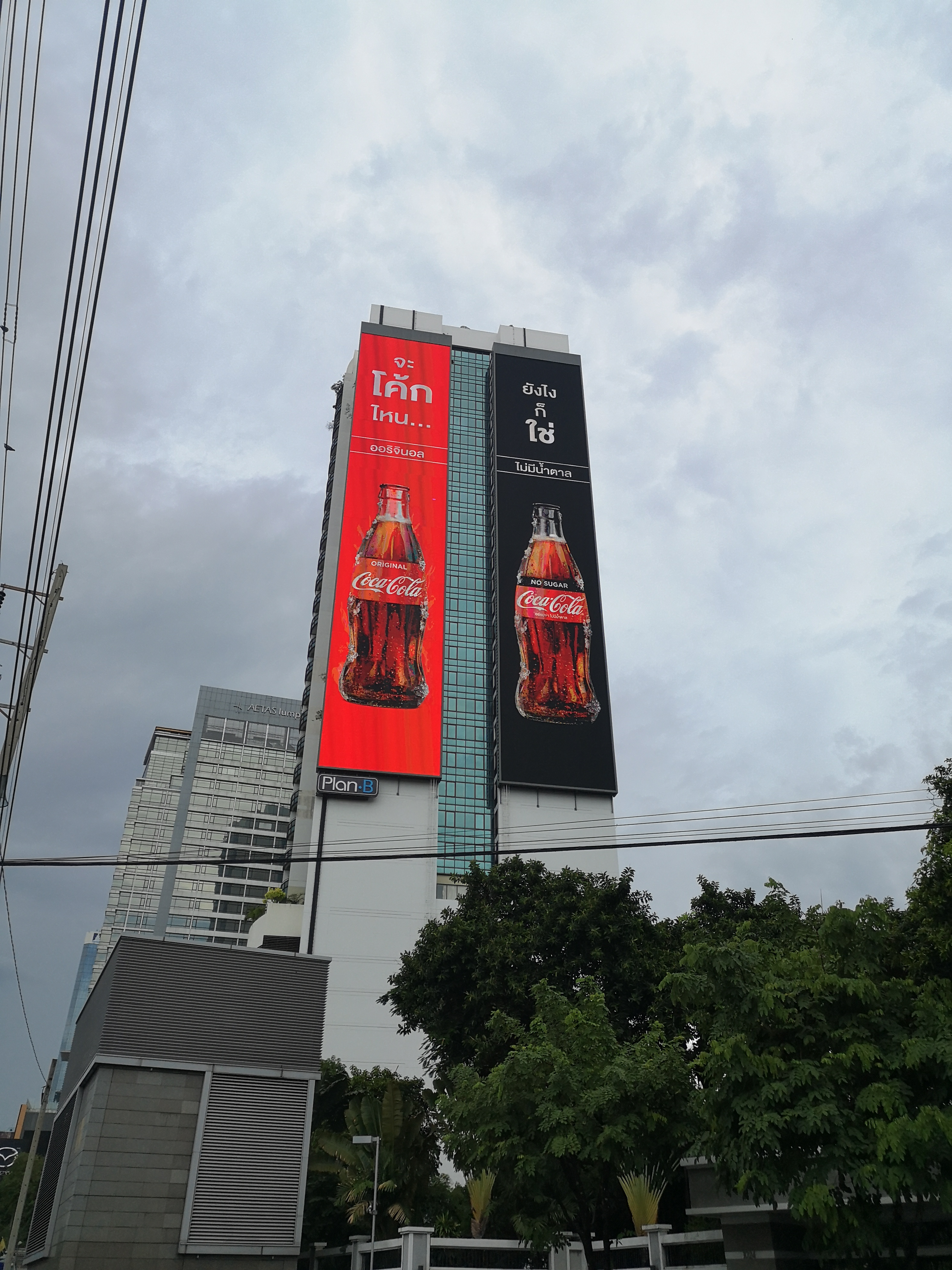 Plan B's digital ads on a Building, Rama IV road